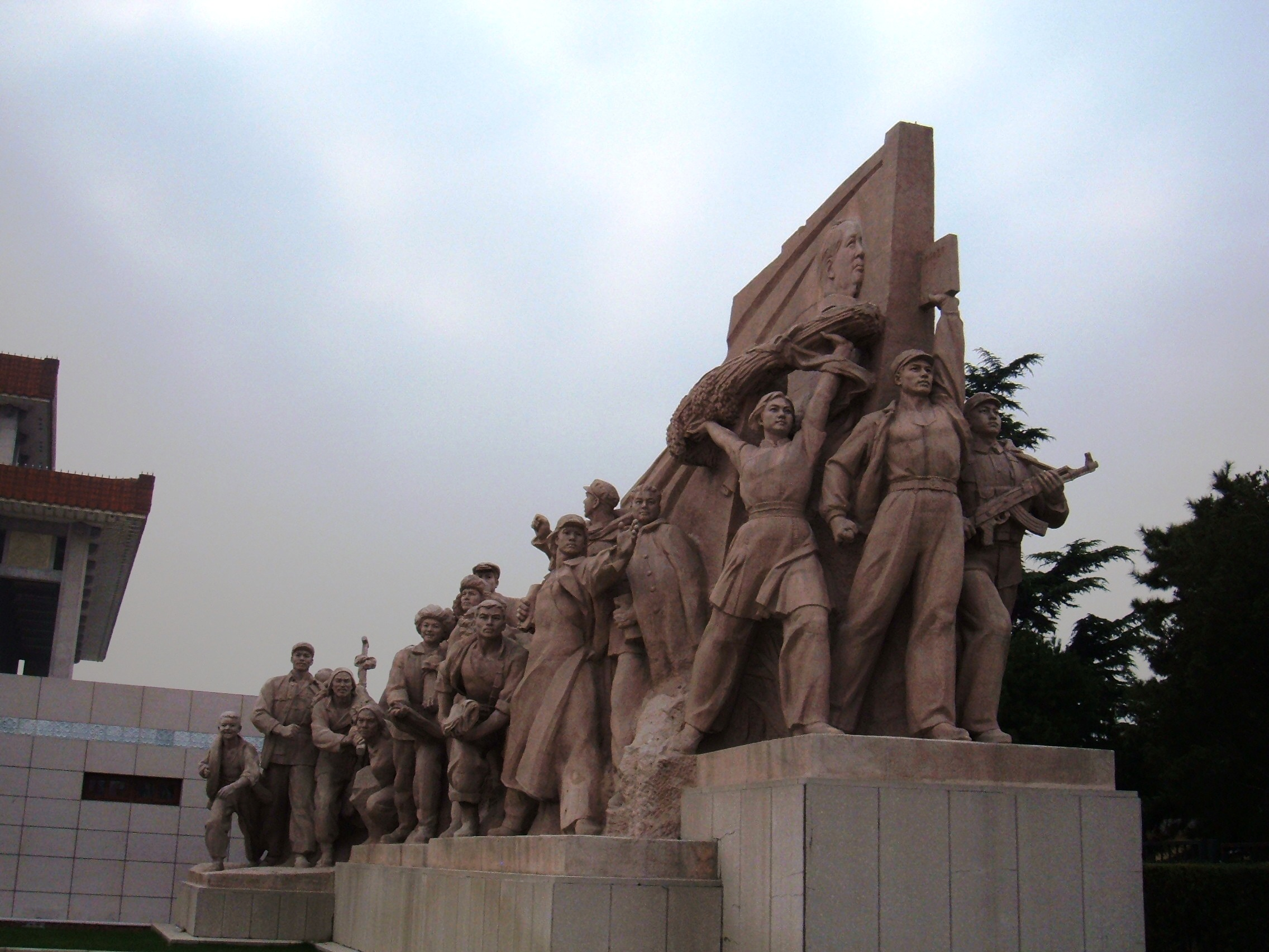 One of two sculptures near the entrance to the Mausoleum of Mao Zedong in Tiananmen Square, Beijing, PRC, this one located on the west side depicting workers, peasants and soldiers.